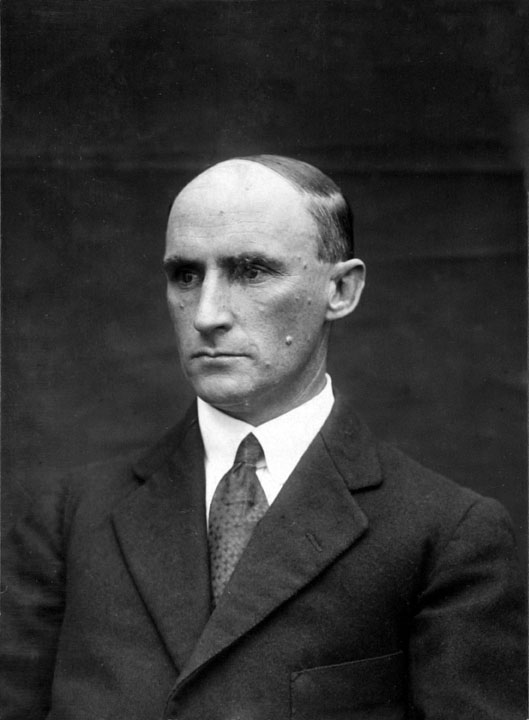 Portrait of Mr John Lewis Froggatt, Assistant Entomologist, Department of Agriculture and Stock.